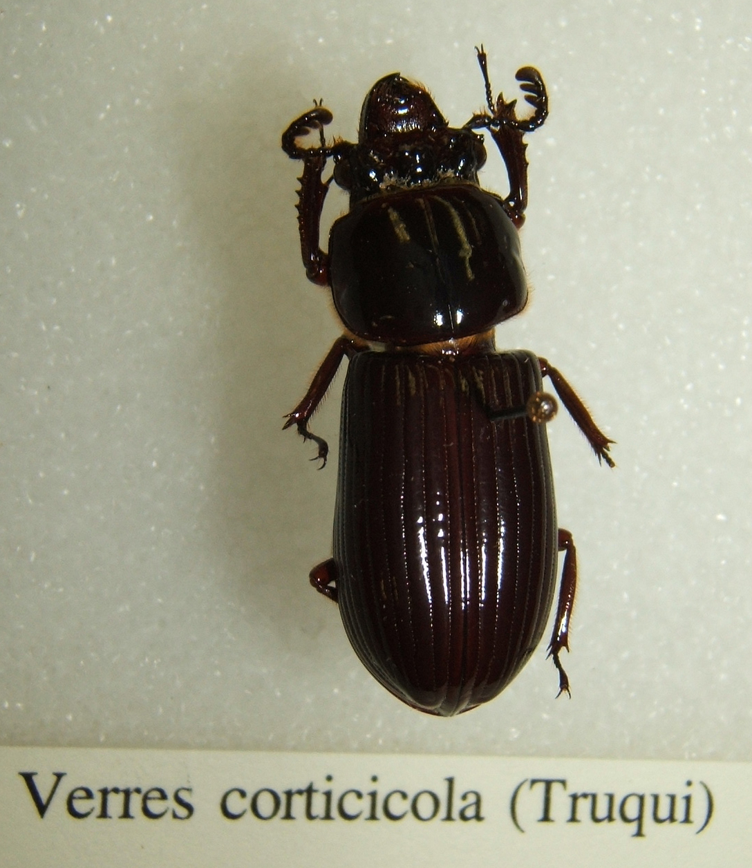 Verres corticicola adult taken by Shawn Hanrahan at the Texas A&M University Insect Collection in College Station, Texas.